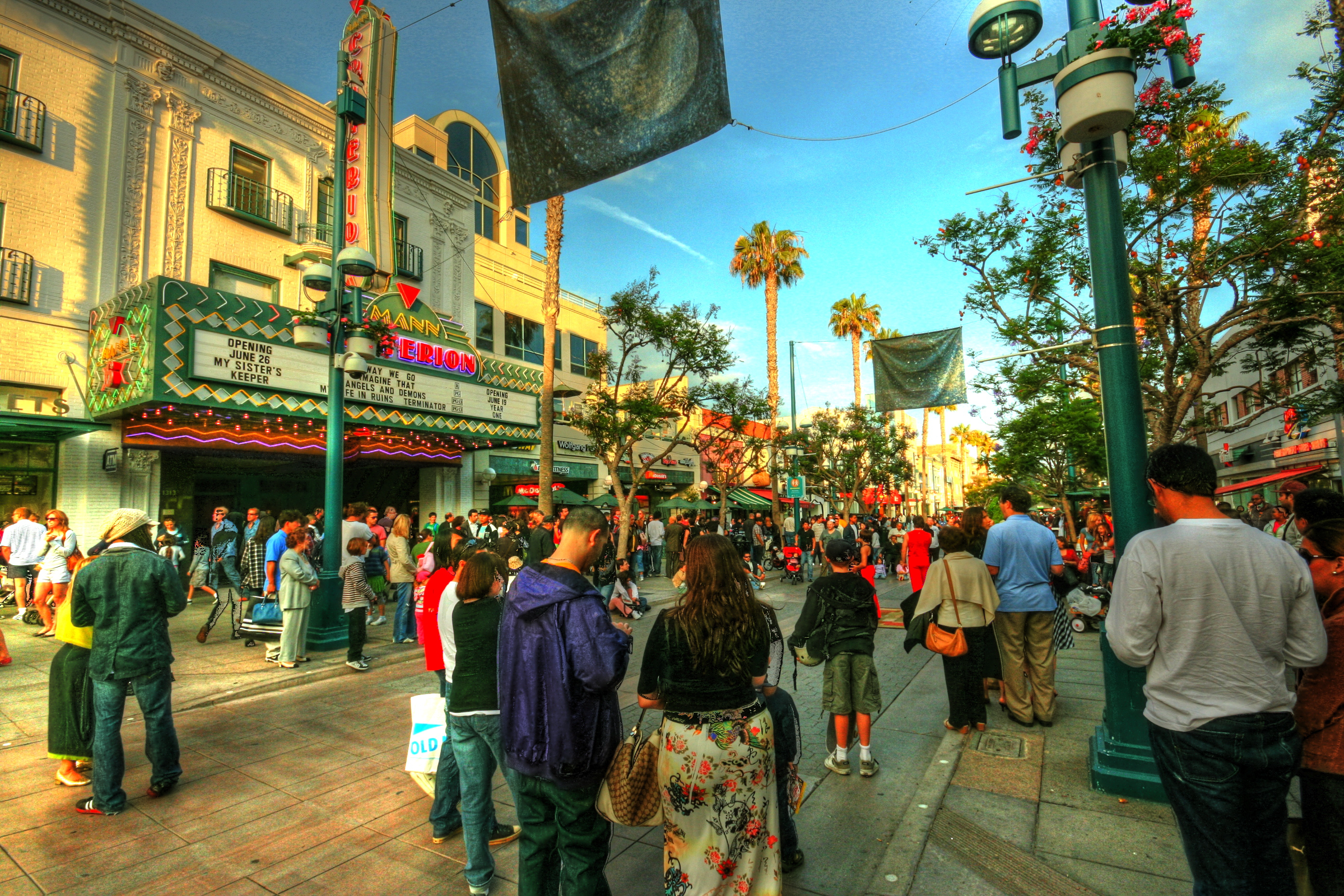 Santa Monica - 3rd Street Promenade